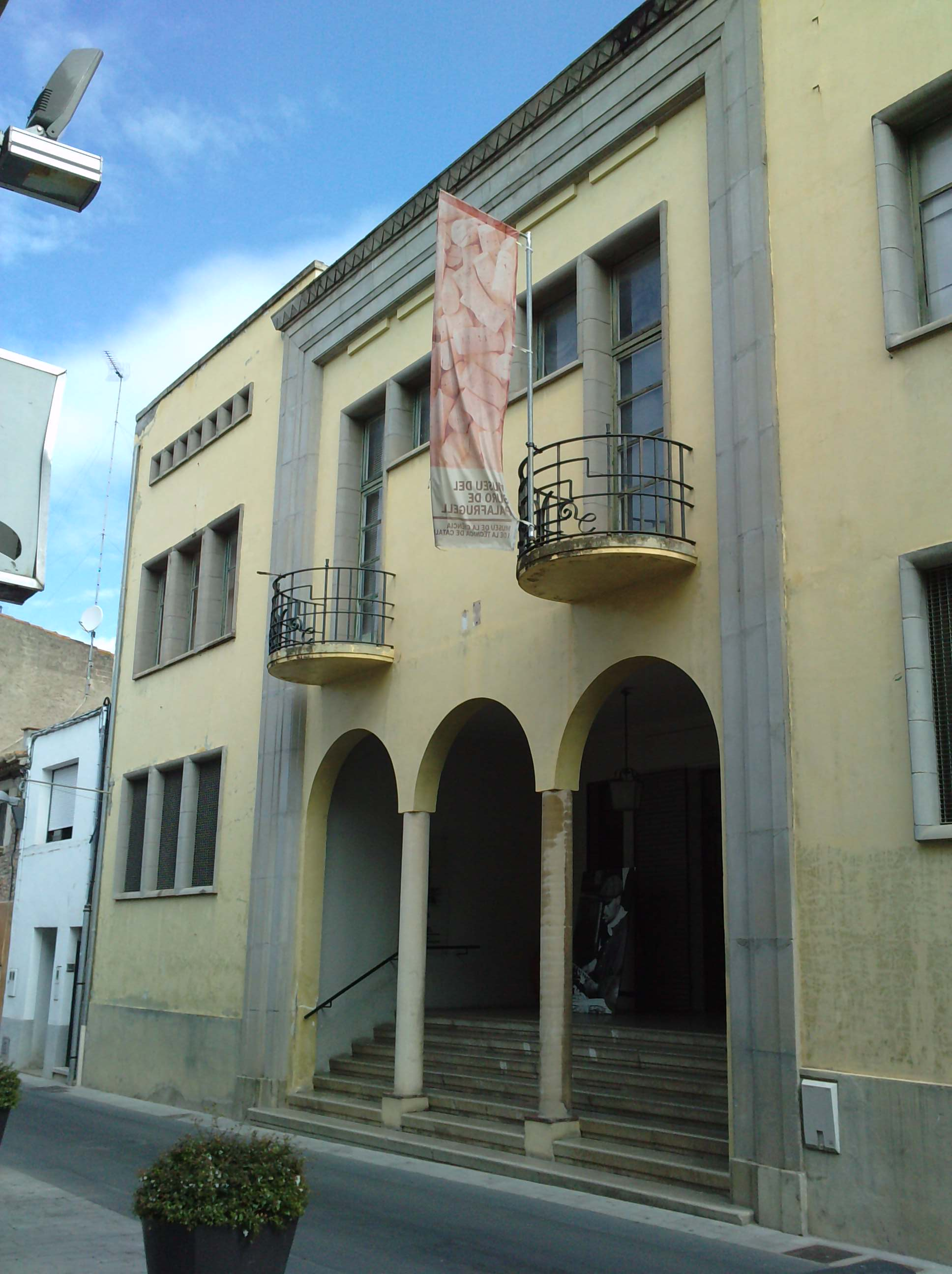 Museu del Suro of Palafrugell